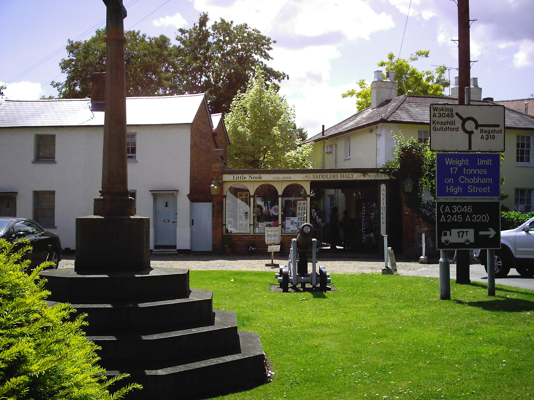 Chobham war memorial and cannon. Chobham is a village and civil parish in the Borough of Surrey Heath in Surrey, England. Suzanne Knights, July 2007, my pic